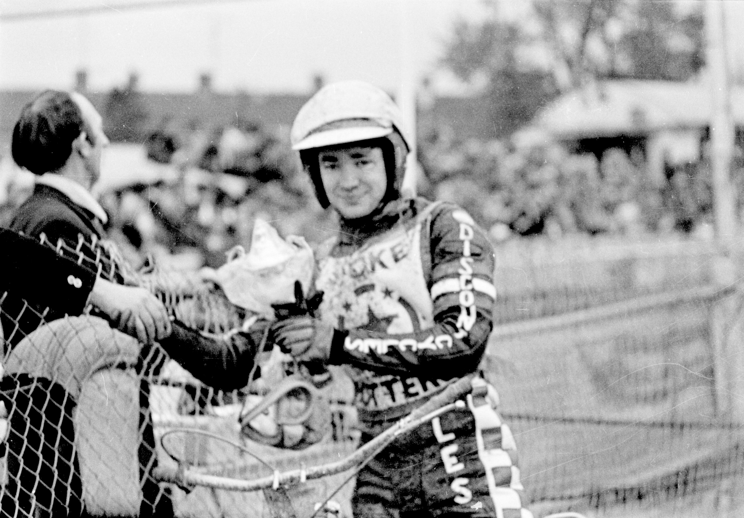 Les Collins wins trophy at Oxford meeting